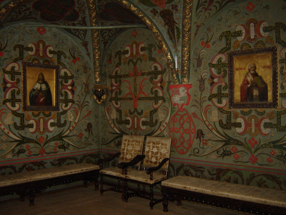 Teremnoy palace interior. Moscow Kremlin, Russia.